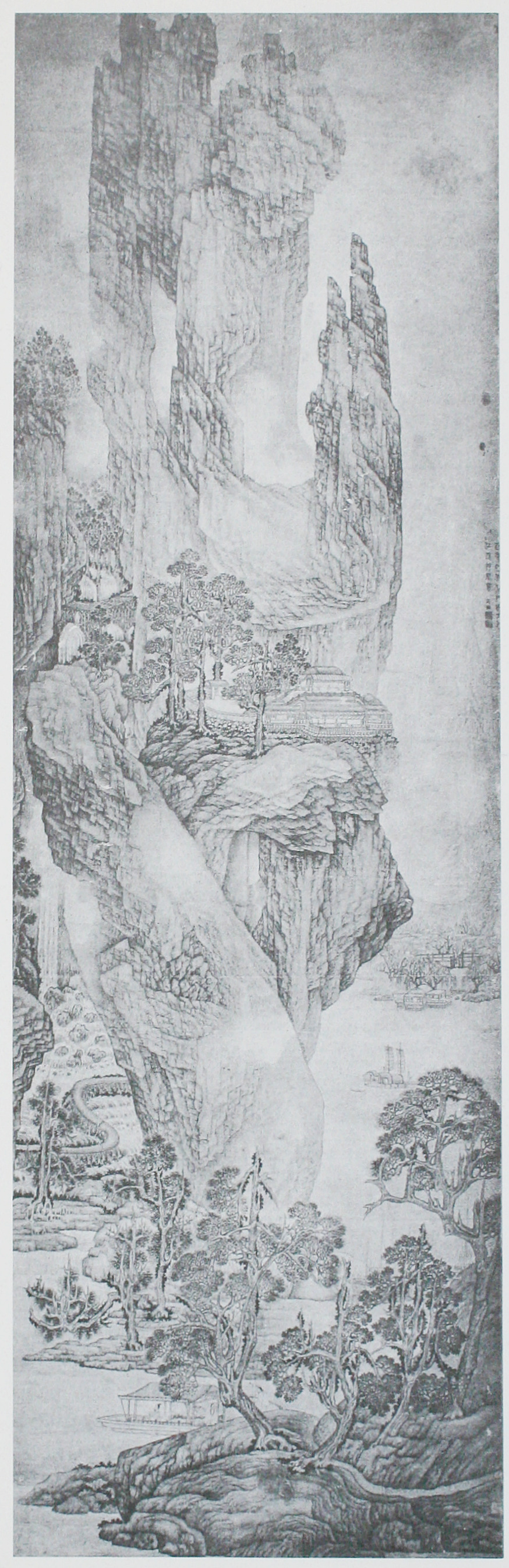 Ladscape Painting Hanging Scroll ink and color on paper 300x98cm, in Asia Museum in San Francisco, USA